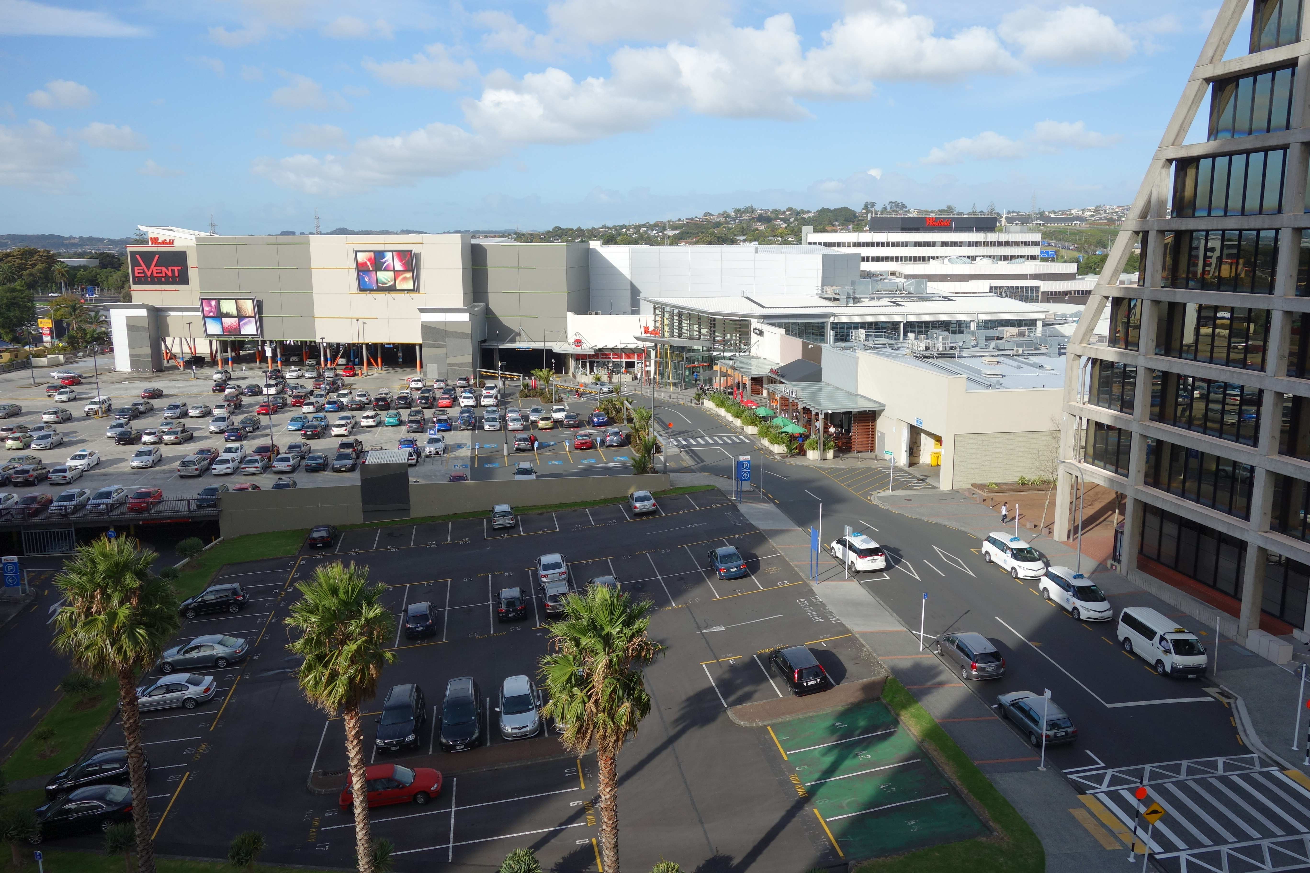 Manukau City Centre, an example of utter lack of good urban design